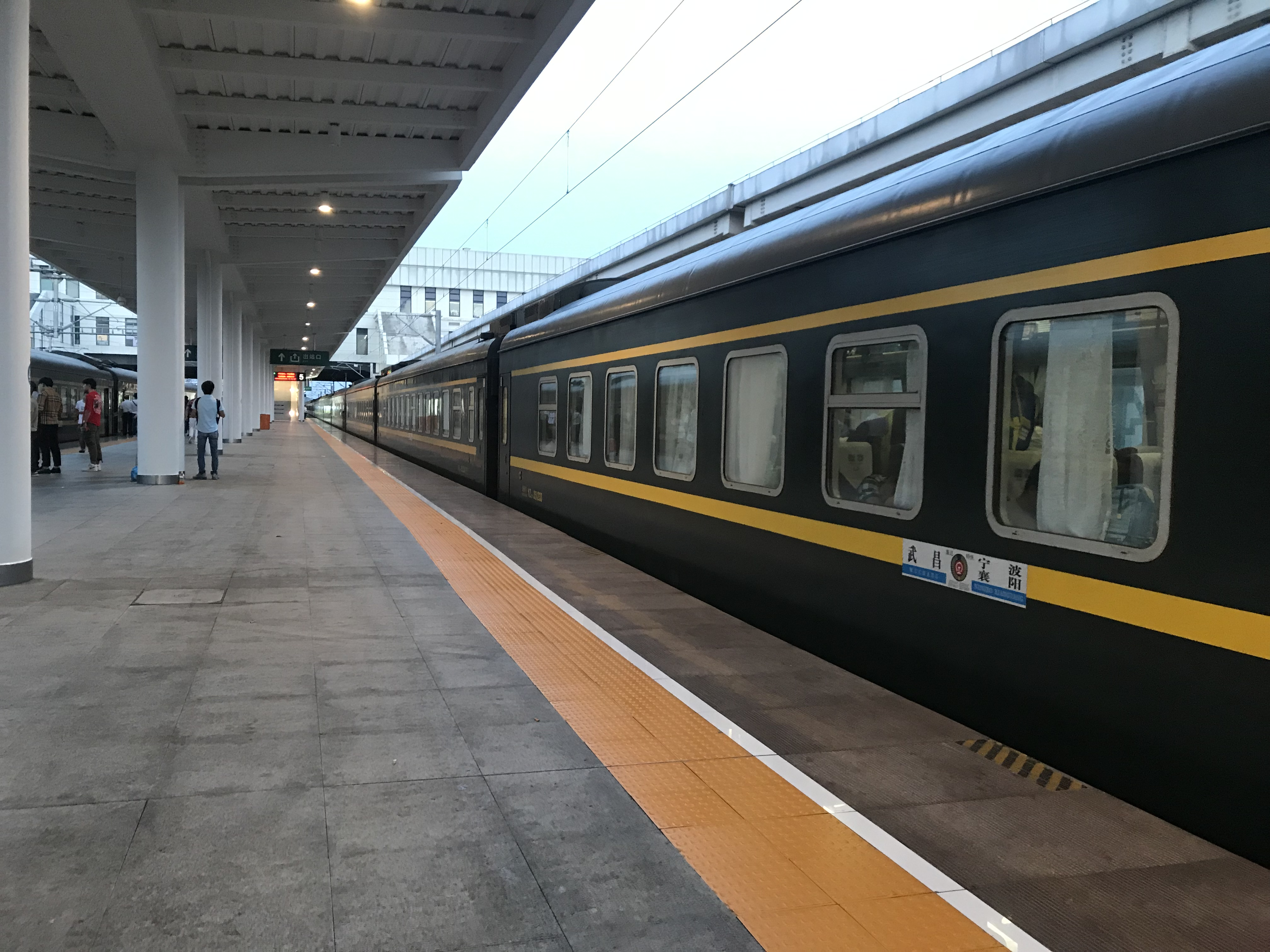 201906 Coaches of Z32 from Wuchang to Ningbo at Jinhua Station